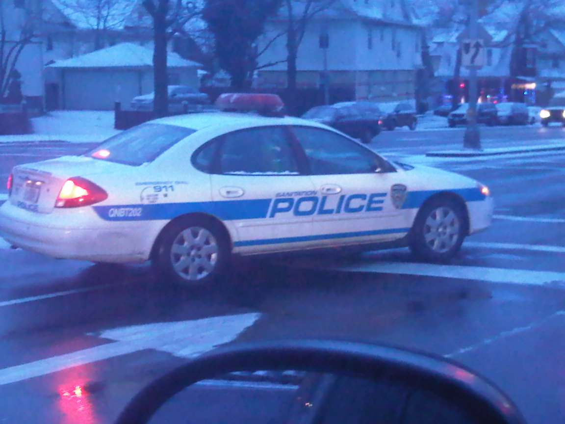 NYC Sanitation Police car photographed in NYC.